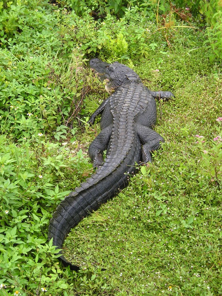 An American alliator (Alligator mississippiensis) found in Everglades National Park, Florida